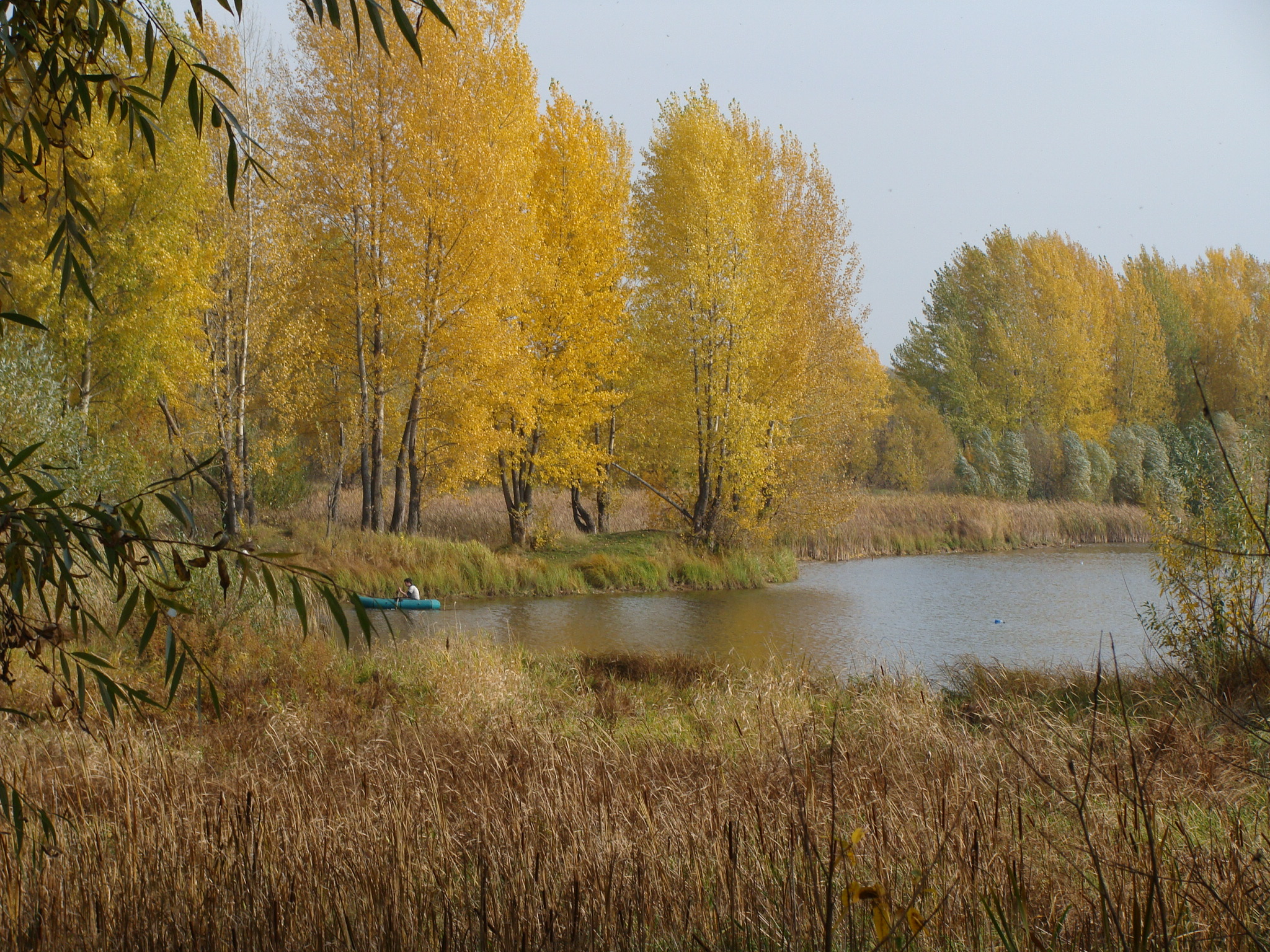 Nature Marie El